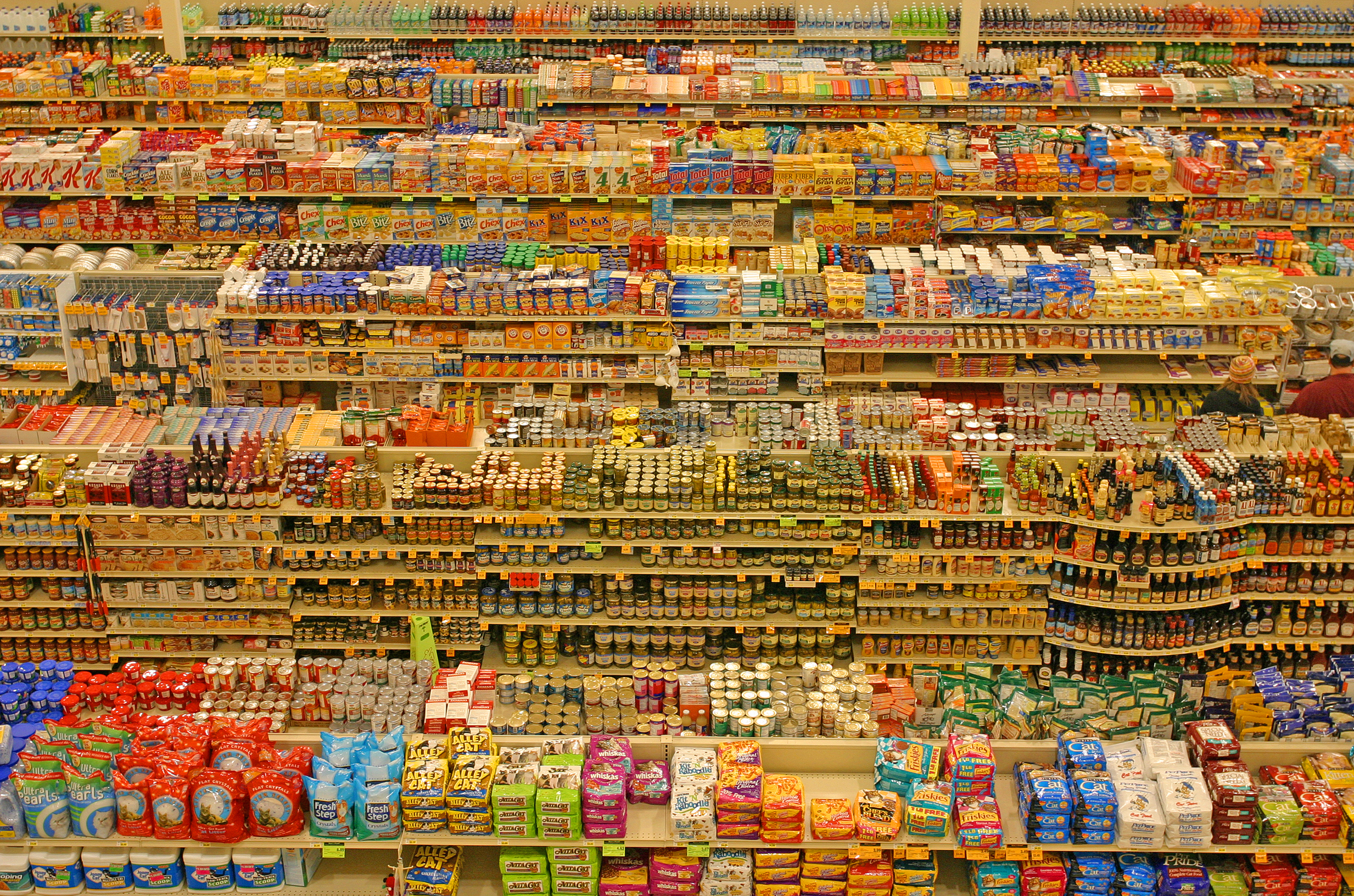 "The New Fred Meyer on Interstate on Lombard" (7404 N Interstate Ave, Portland, OR 97217)